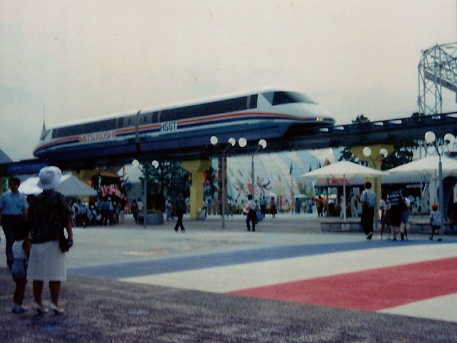 HSST at YES'89, in Yokohama City, 1989.